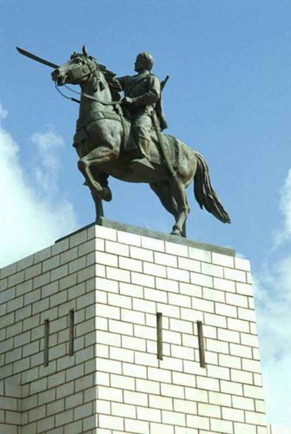 Statue of Sayyid Mohammed Abdullah Hassan (the "Mad Mullah") in Mogadishu, Somalia.